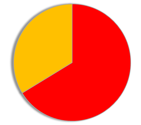 Expressed as a pie chart in the Kagoshima gubernatorial election in 2012, the number of votes for each candidate. explanatory notes ■ - Yuichiro Ito ■ - Yoshitaka Mukohara